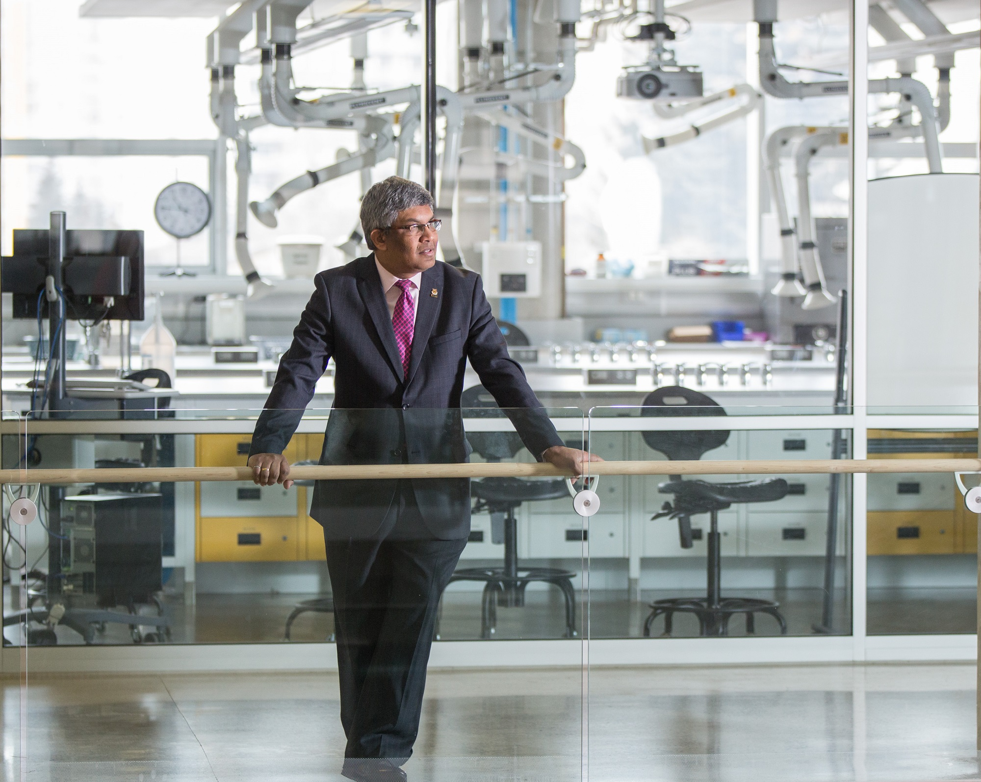 Ruwanpura was a professor, Canada Research Chair in Project Management and Director, Centre for Project Management Excellence.